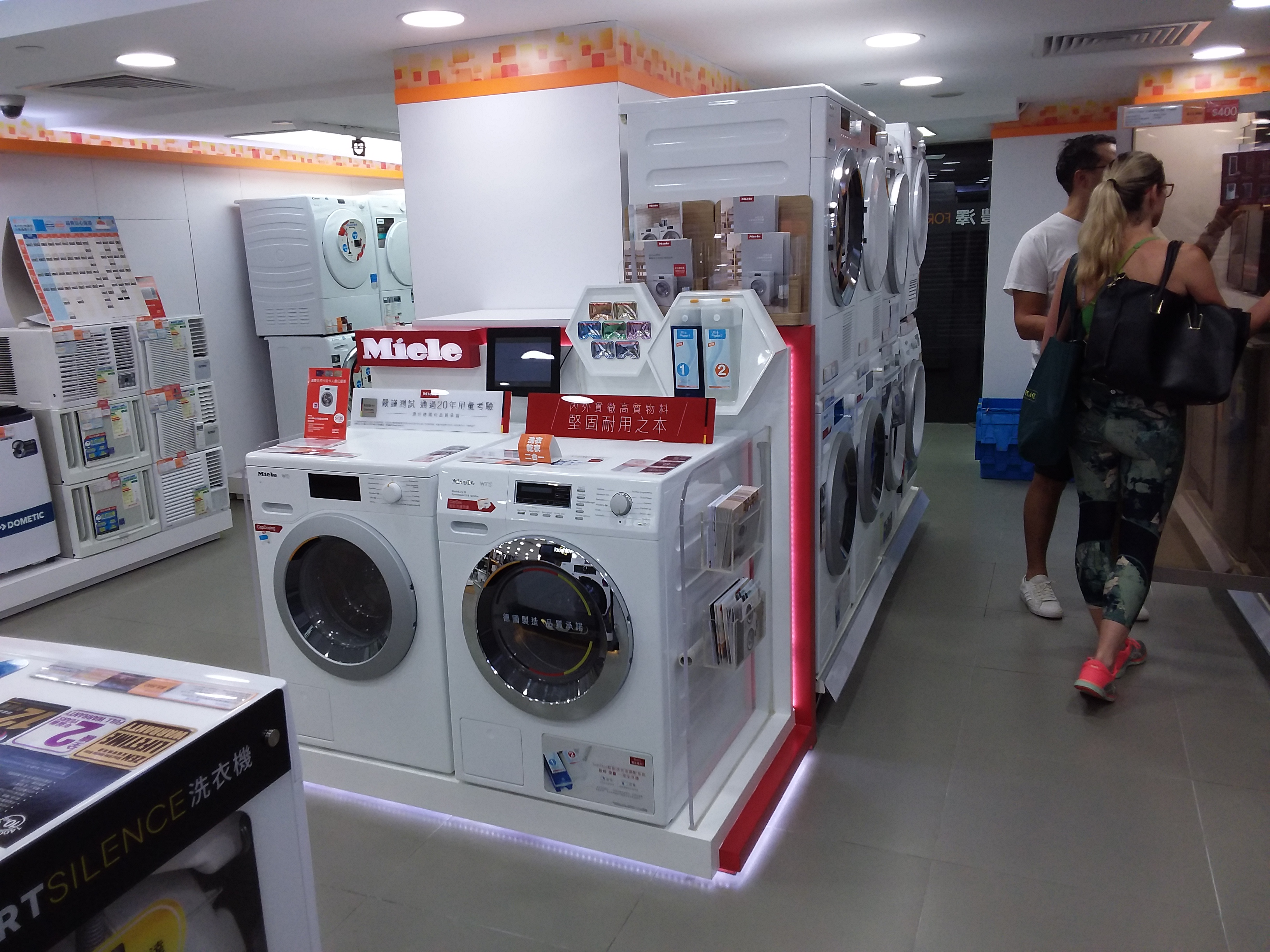 HK Central 豐澤電器 Fortress shop 萬邦行 Melbourne Plaza in March 2019